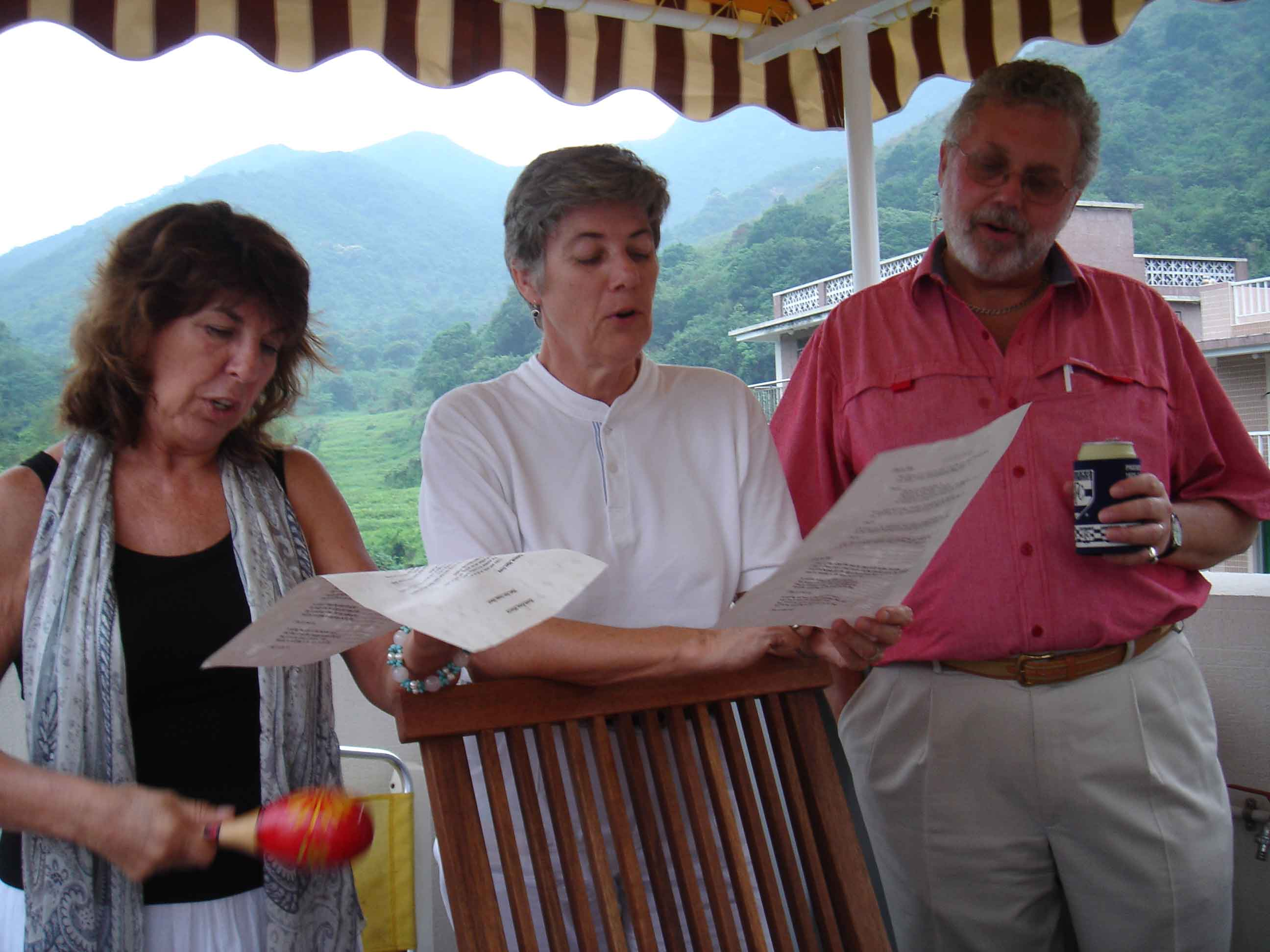 The Hong Kong Morris celebrate May Morning with a song, 1 May 2008